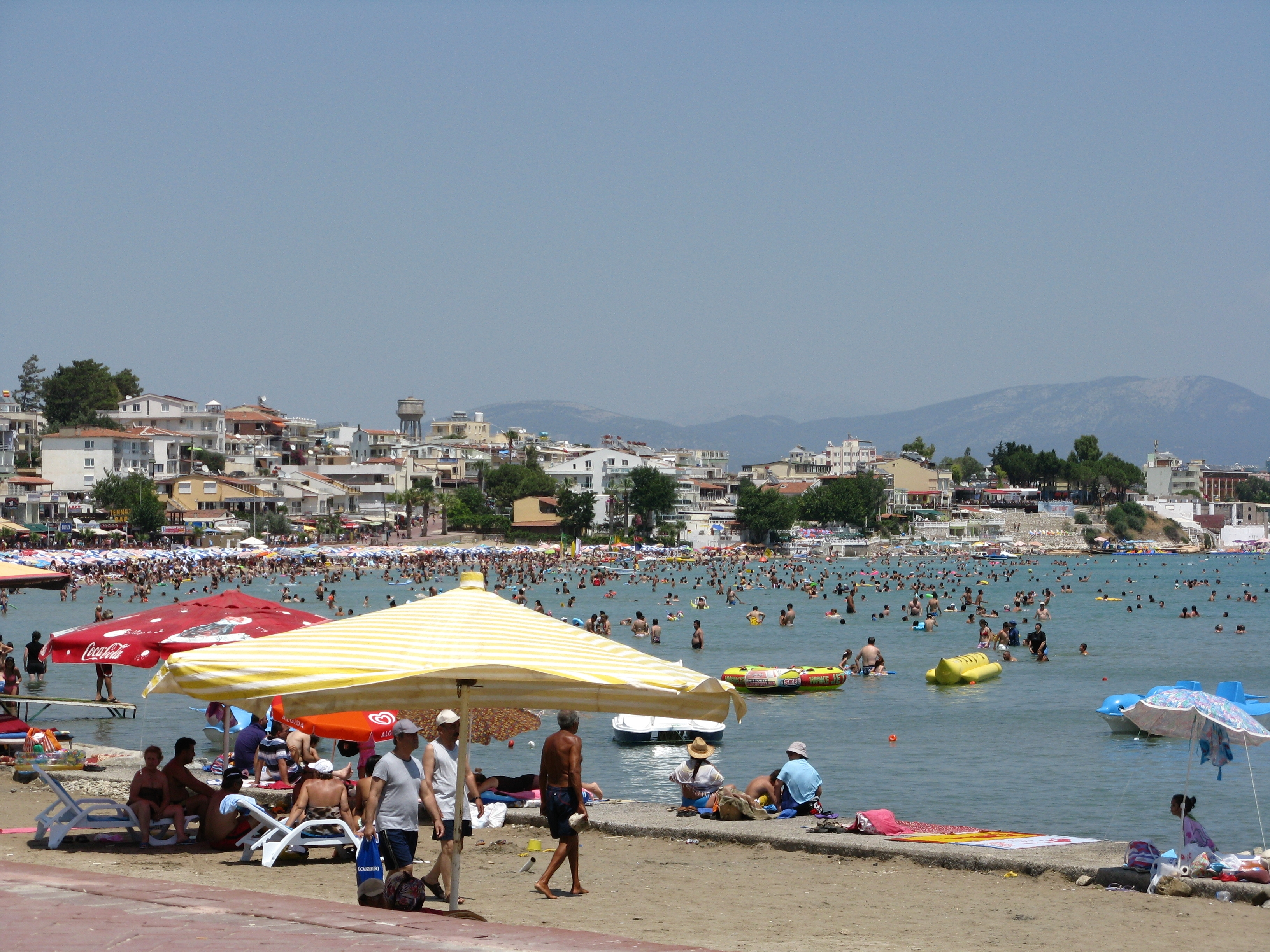 Didim, west Turkey